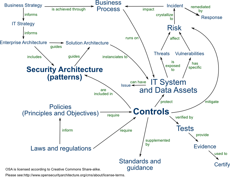 A picture showing the relationships of different security terms around security architecture